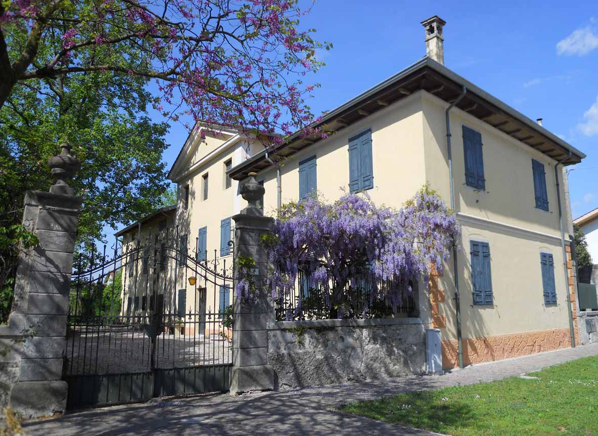 S.Stefano_Udinese,_villa_d'Arcano